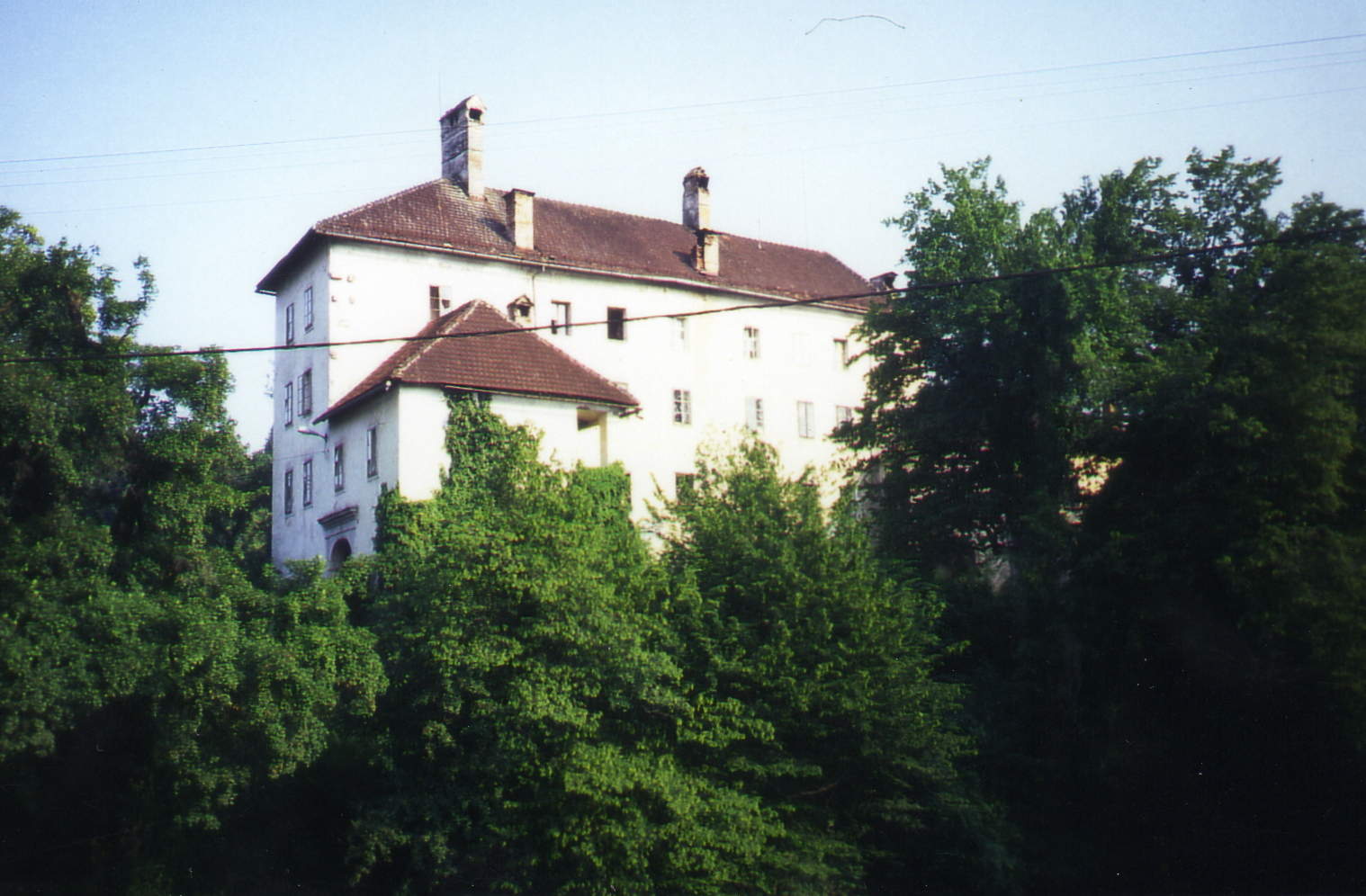 Castle Gradac in the village Gradac (Bela krajina region in southern Slovenia)